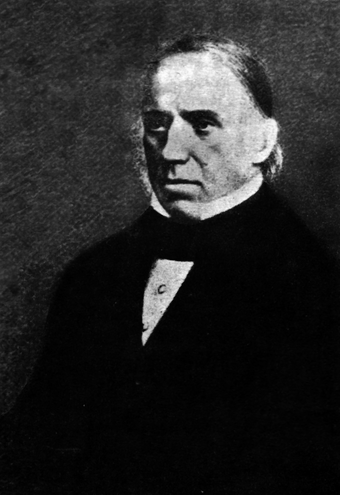 A portrait of Eugene O'Curry.